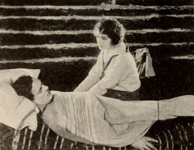 Still from the American drama film Heart of the Wilds (1918) with Thomas Meighan and Elsie Ferguson, on page 50 of the September 7, 1918 Exhibitors Herald.